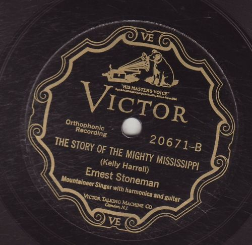 The Story of the Mighty Mississippi by Ernest Stoneman, Victor 1927. Note that old-time singer Kelly Harrell wrote the song.